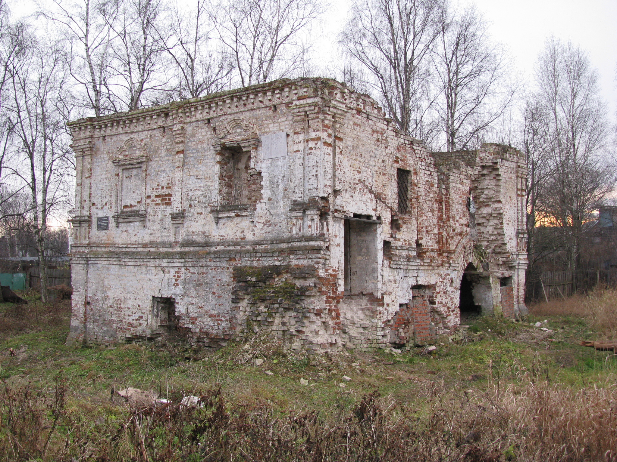 Church of Alexius in Vologda